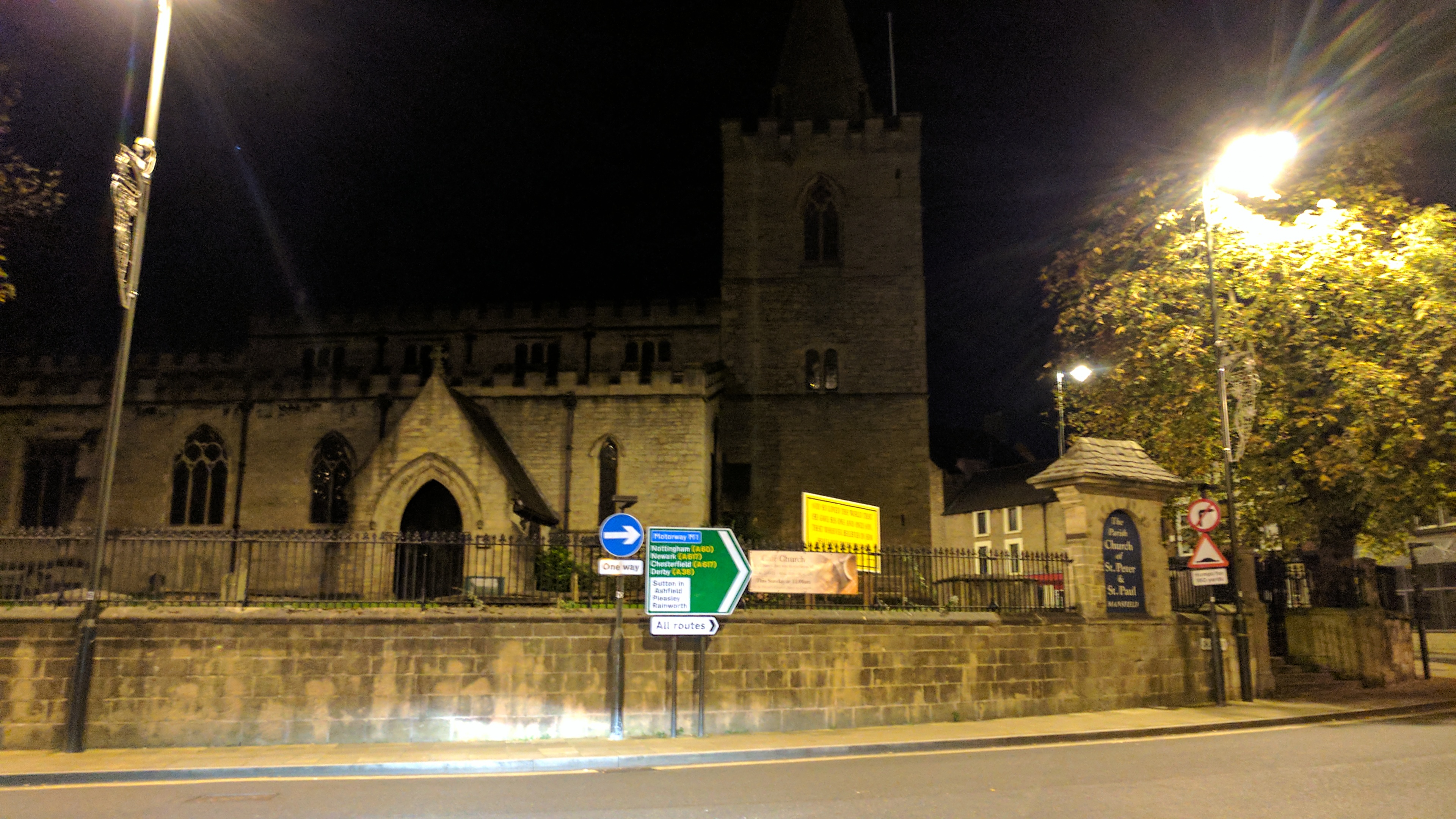 Boundary Wall And Gates To Churchyard Of St Peter And St Paul Wikidata has entry Q26577074 with data related to this item.